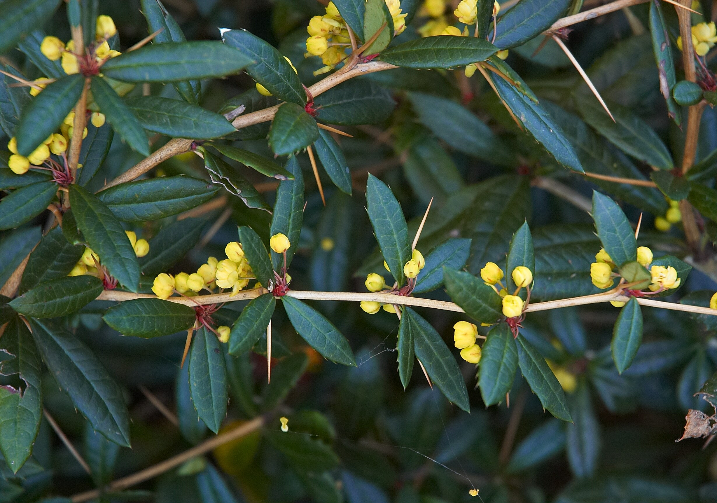 Wintergreen barberry or Chinese barberry